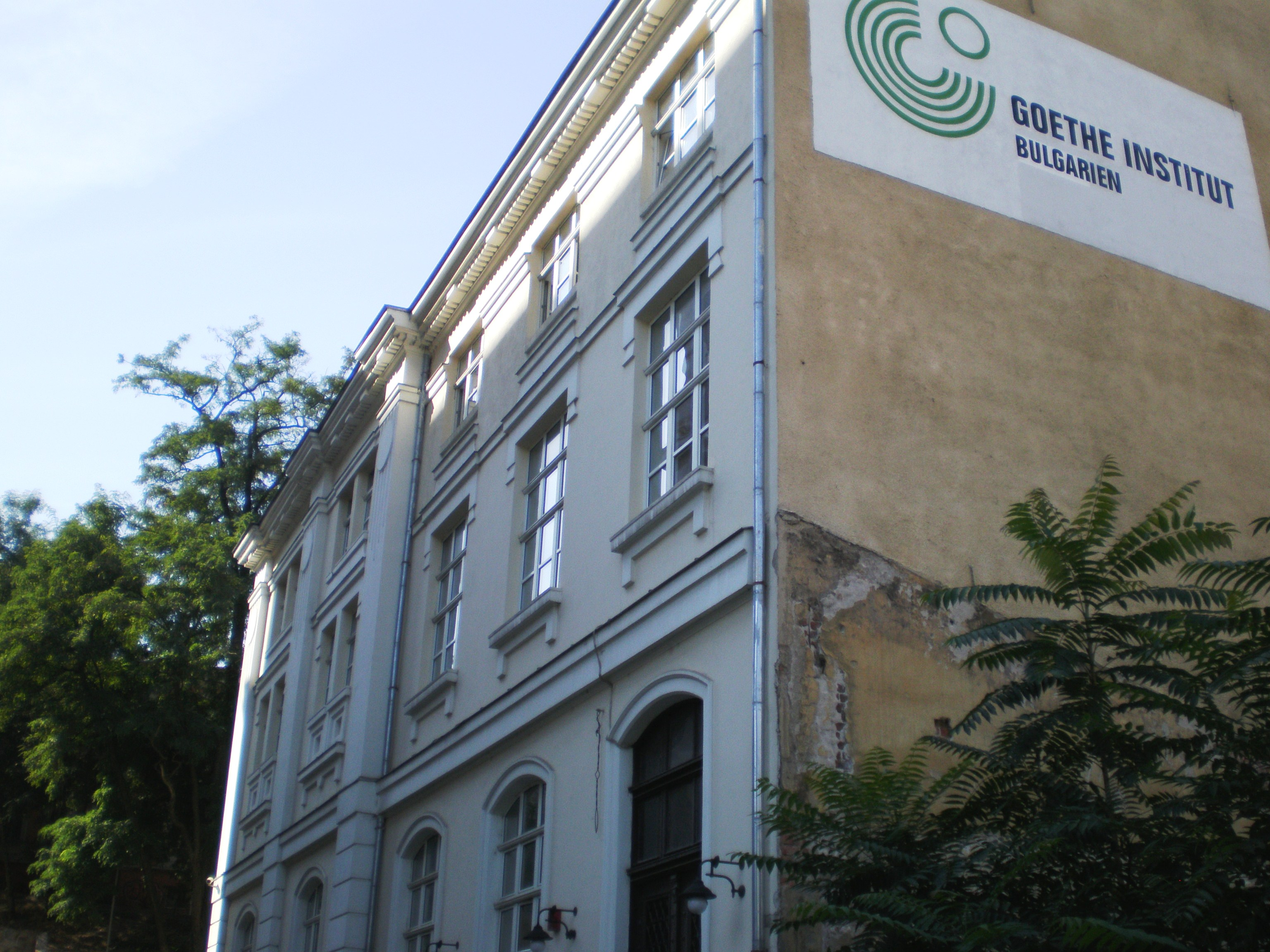 Goethe Institut, Sofia, Bulgaria